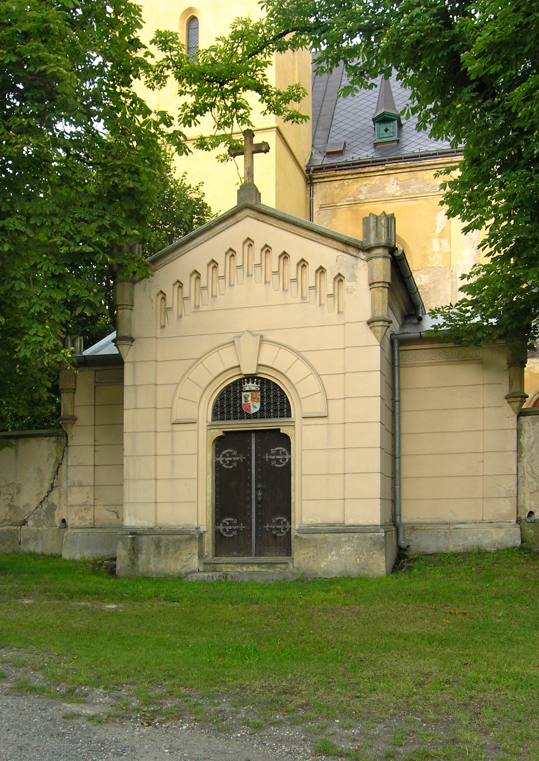 Chapel by church in Ovčáry, Czech Republic